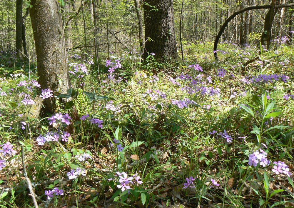 Phlox divaricata in disturbed habitat at edge of mesic woodlands